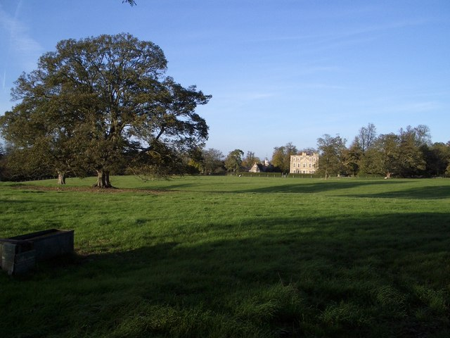 Hinwick House and Parkland This view of Hinwick House shows the south front viewed across its parkland from the hamlet of Hinwick. The House is Grade I listed and was built 1708-1714, with later additions, for Richard Orlebar.